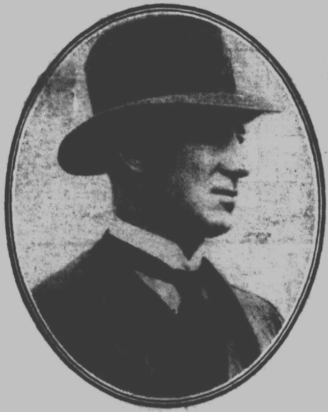 Original Caption: "Jack Holt, who can lay claim to being one of the greatest racehorse trainers in the Commonwealth."